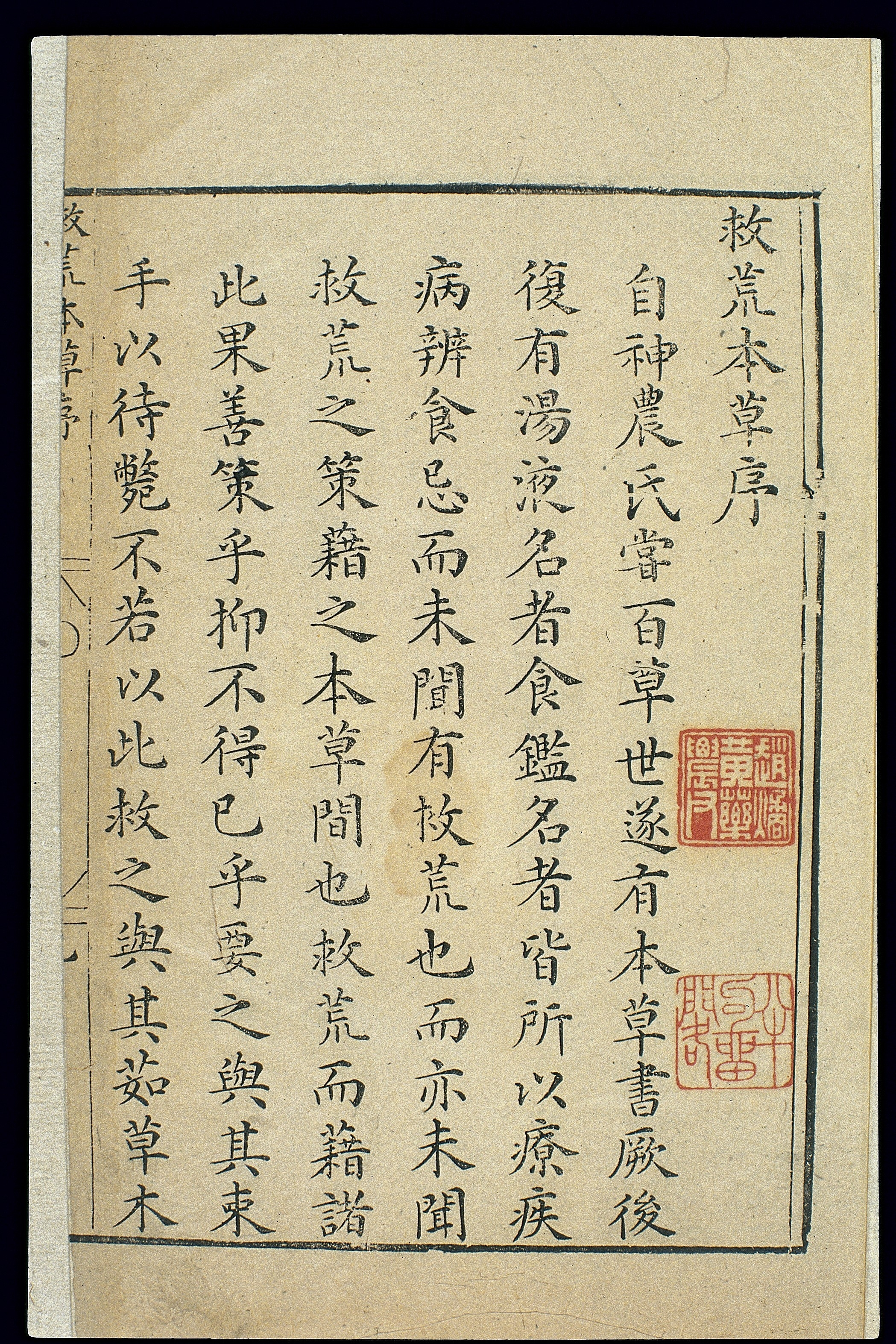 First page of preface (first half-folio) fromJiuhuang bencao(The Famine Relief Herbal), edition of 1593 (21st year of the Wanli reign period of the Ming dynasty, Gui Si year). This herbal was compiled by Prince Zhu Su (?-1425), fifth son of the Ming Taizu Emperor (r. 1368-1398), the founder of the Ming dynasty. It was first engraved for publication in 1525. It contains entries on 414 edible plants, all of them illustrated. The author cultivated most of these plants in his gardens, and lived on the produce.This preface, written for Hu Wenhuan's Qiantang, edition explains the significance of the Famine Relief Herbal and the editors' intentions. Woodcut